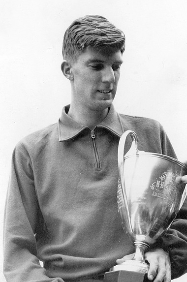 Australian champion sprinter John Treloar, being presented with a trophy by Lord Burghley ... after he won ... Amateur Athletics Association championships, White City, London